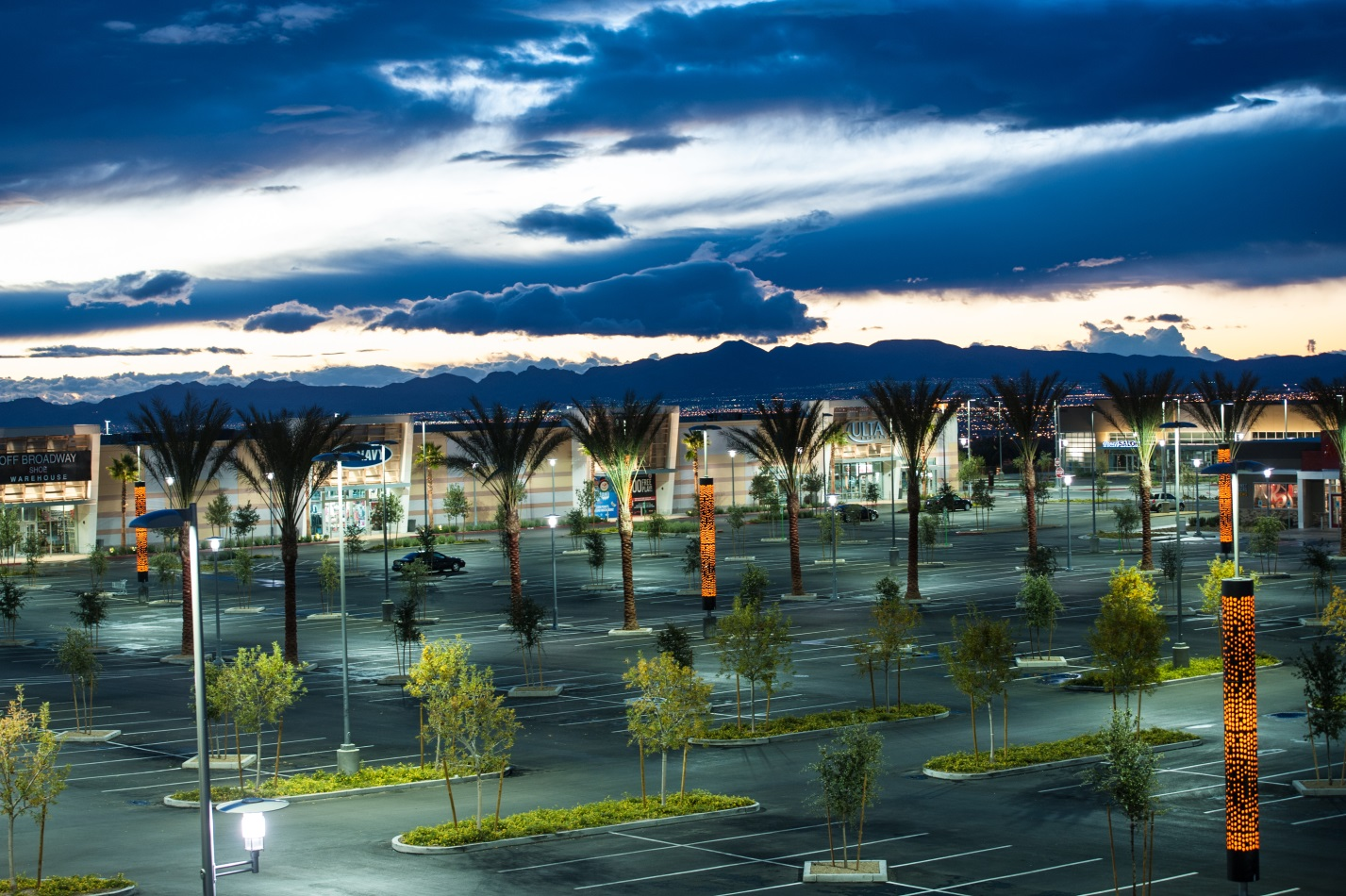 Downtown Summerlin, Las Vegas, Nevada